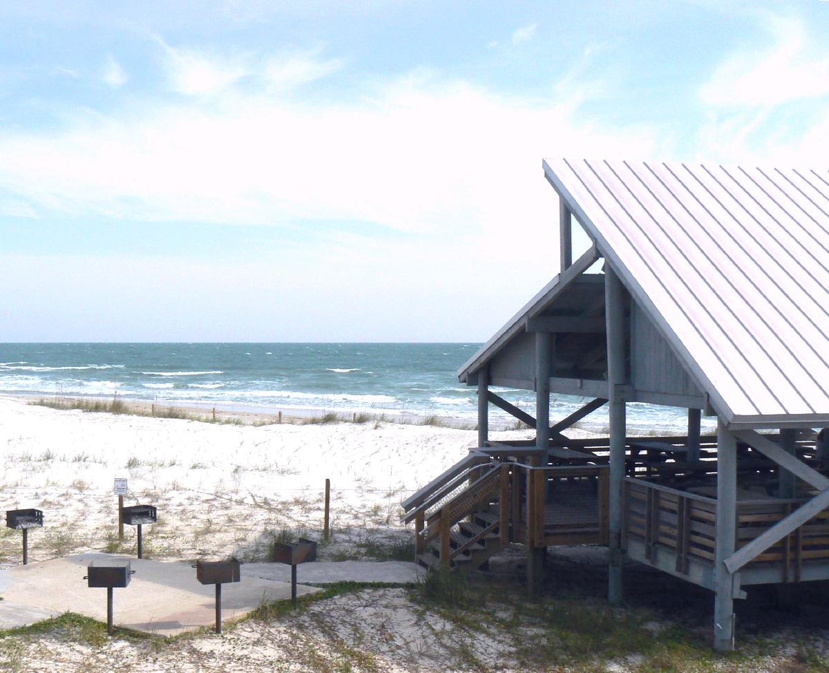 Some of facilities available at beach at St. George Island State Park, Florida.